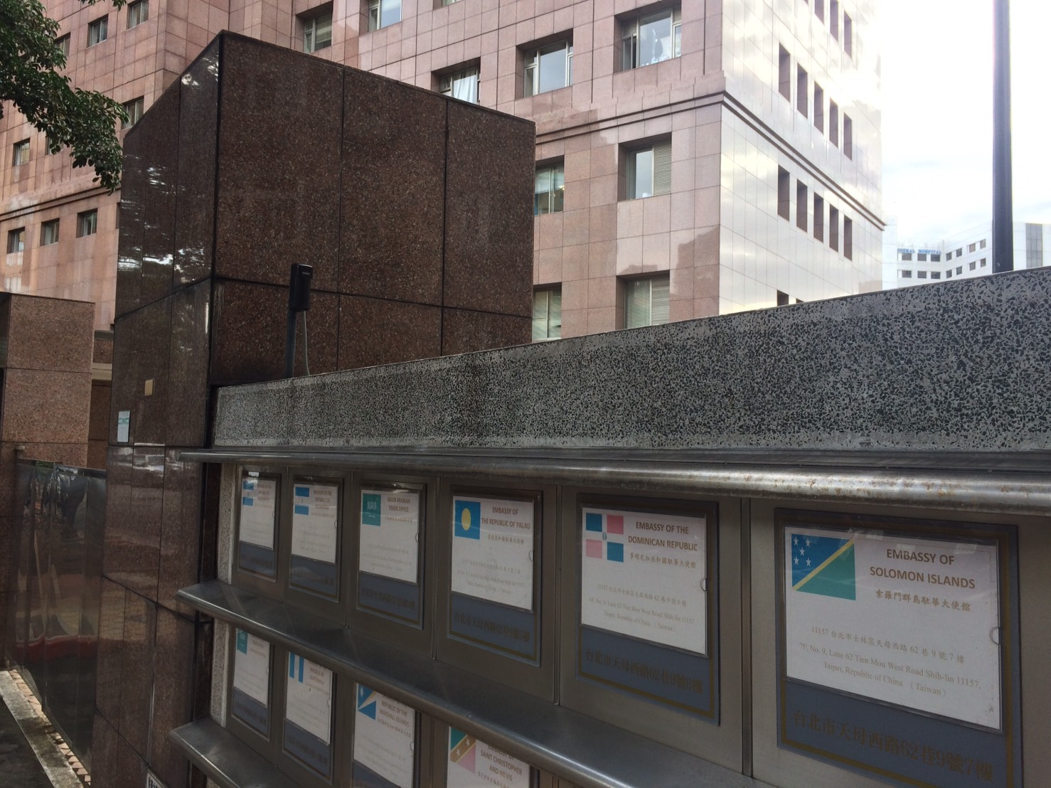 Names of some embassies on a wall enclosing the building of the Diplomatic Quarter (使館特區) in Taipei, Taiwan, as seen from Lane 62, Tianmu West Road (天母西路62巷), and back (north) side of building (side not facing the stream) on 21 November 2017. Some printed words clearly visible on the picture: Top row: EMBASSY OF SOLOMON ISLANDS EMBASSY OF THE DOMINICAN REPUBLIC EMBASSY OF THE REPUBLIC OF PALAU SAUDI ARABIAN TRADE OFFICE Bottom row: EMBASSY OF SAINT CRISTOPHER AND NEVIS EMBASSY OF THE REPUBLIC OF THE MARSHALL ISLANDS